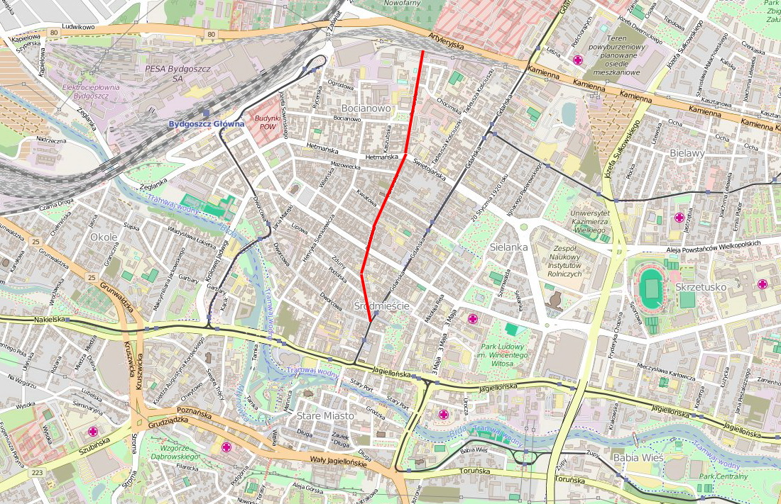 Map of Bydgoszcz with Pomorska street highlighted